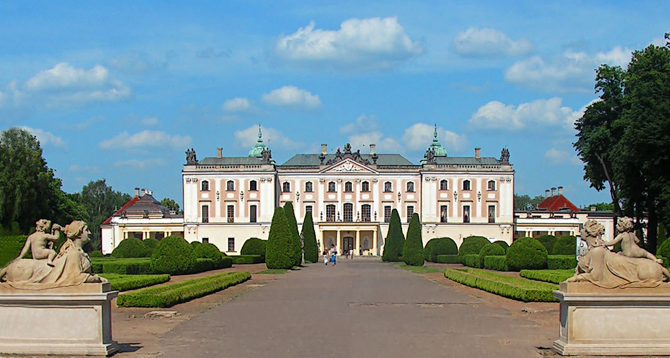 Garden facade of the Branicki Palace in Białystok.